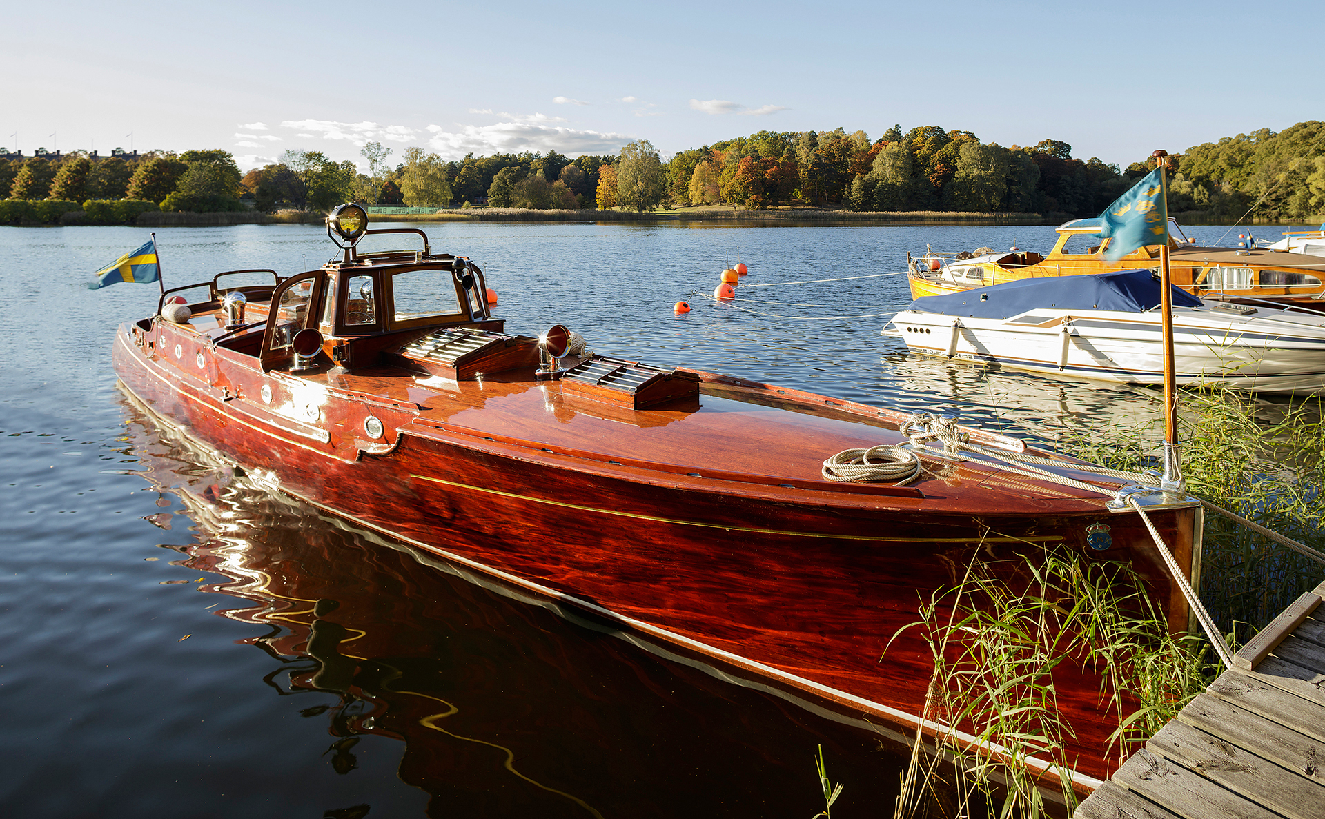 M/Y Loris built 1913 i Sweden